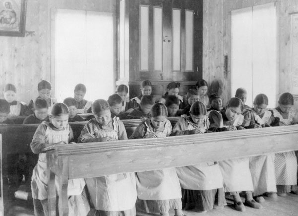 Title / Titre : Study period at Roman Catholic Indian Residential School, [Fort] Resolution, Northwest Territories / Période d’étude au Pensionnat indien catholique de [Fort] Resolution (Territoires du Nord-Ouest) Creator(s) / Créateur(s) : Unknown / Inconnu Date(s) : Unknown / Inconnu Reference No. / Numéro de référence : MIKAN 3381256, 4063309 Location / Lieu : Fort Resolution, Northwest Territories, Canada / Fort Resolution, Territoires du Nord-Ouest, Canada Credit / Mention de source : Canada. Department of Mines and Technical Surveys. Library and Archives Canada, PA-042133 / Canada. Department of Mines and Technical Surveys. Bibliothèque et Archives Canada, PA-042133